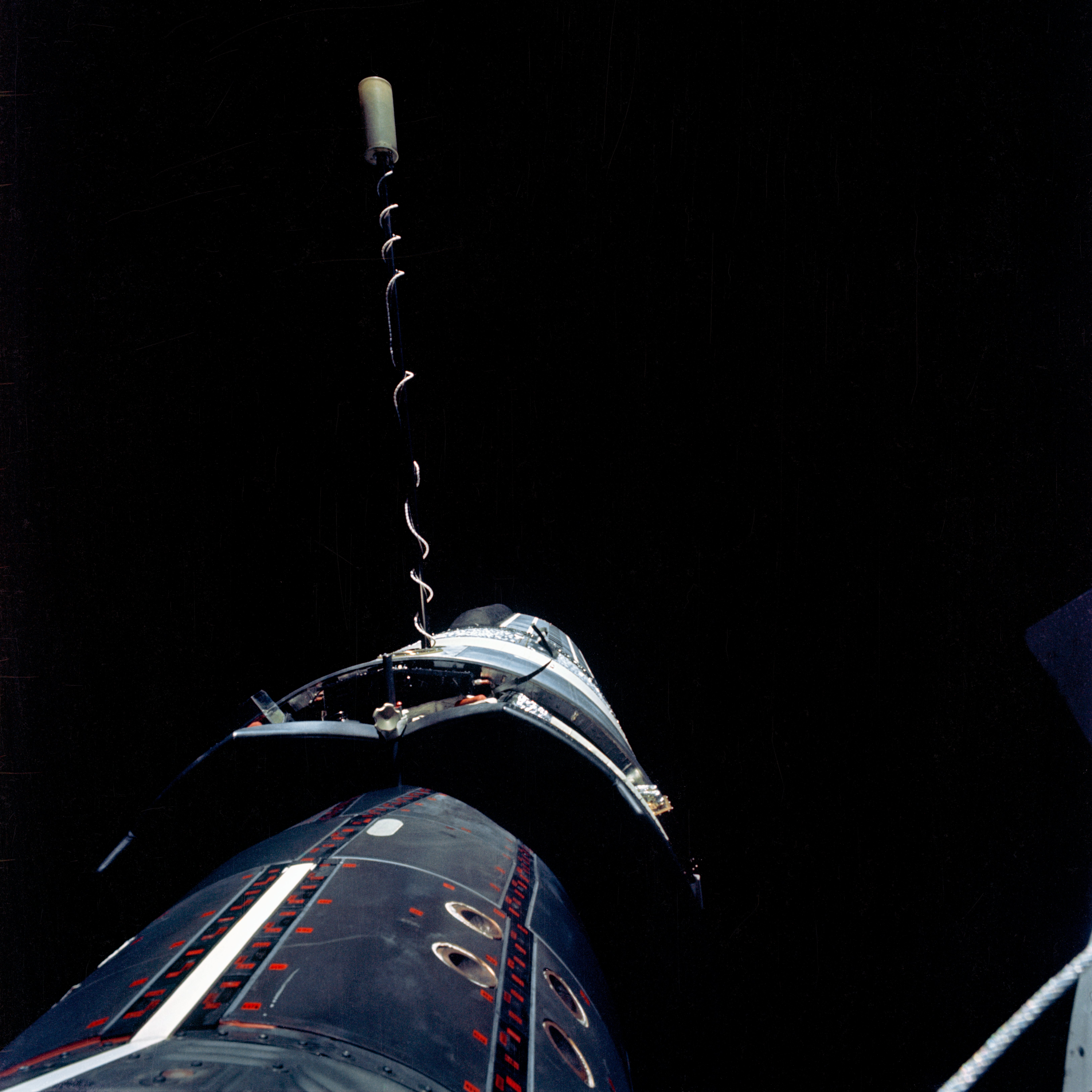 The Gemini 11 spacecraft is docked to the Agena Target Vehicle in this photograph taken by Pilot Richard F. Gordon Jr. as he stood in the open hatch of the Gemini 11 spacecraft during his extravehicular activity. Note Agena's L-band antenna. Photo was taken during Gemini 11's 29th revolution of the earth. Image ID:S66-54555